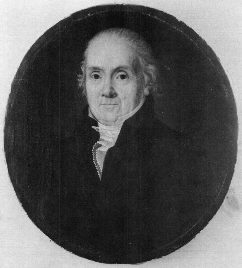 isaac de Rivaz (1752-1828), Portrait par Antoine Hecht, 1827. Propriété de Mme G. Doebeli-Leuzinger, in Pierre de Rivaz, inventeur et historien, 1711-1772 : sa vie et ses occupations professionnelles, ses recherches techniques, ses travaux historique by Henri Michelet.